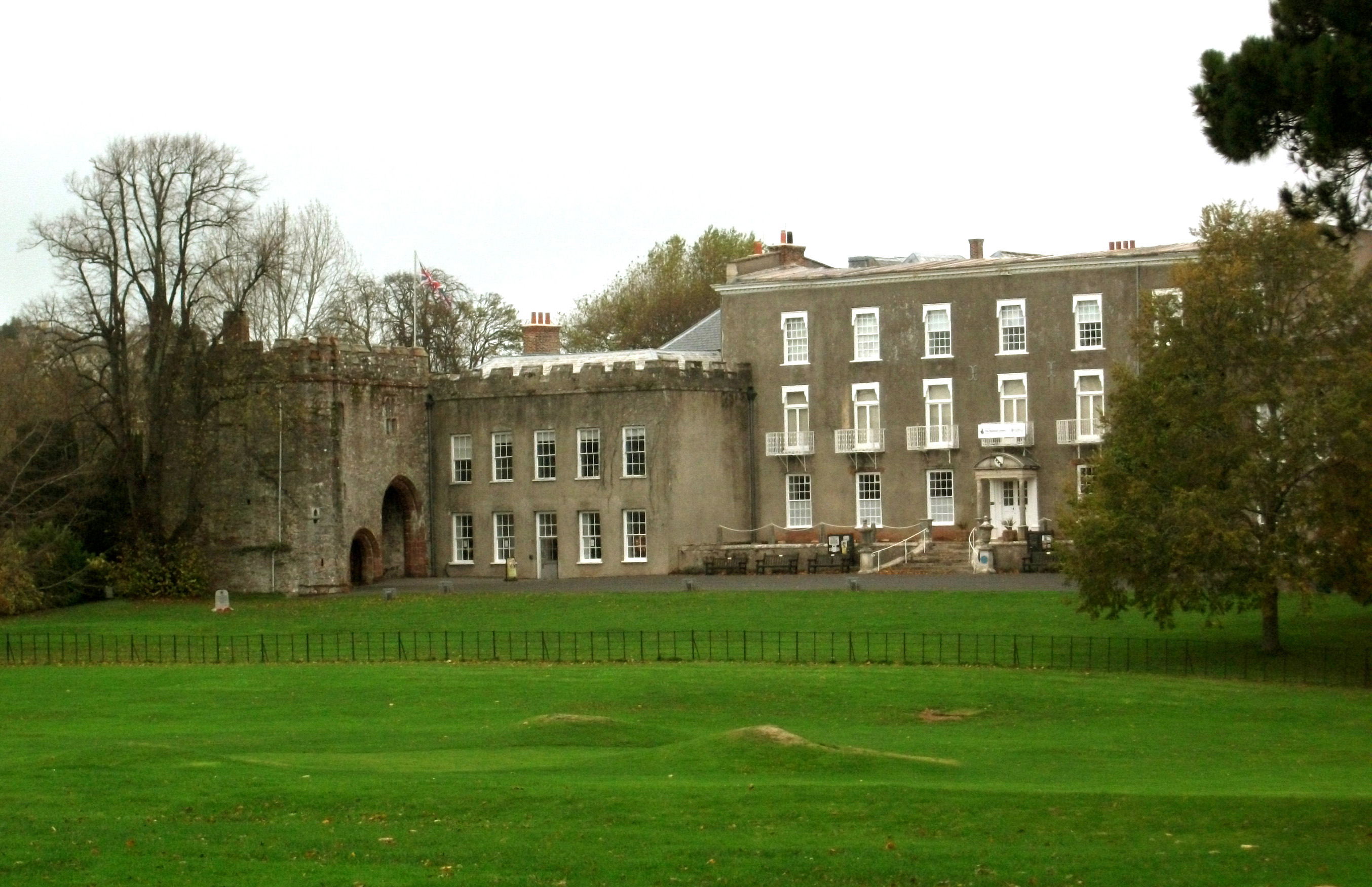 Torre Abbey, frontal view